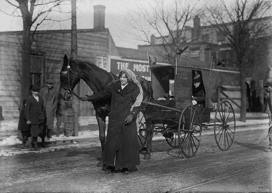 Elizabeth Freeman Bain News Service,, publisher. Eliz. Freeman enroute to Wash. [no date recorded on caption card] 1 negative : glass ; 5 x 7 in. or smaller. Notes: Title from unverified data provided by the Bain News Service on the negatives or caption cards. Forms part of: George Grantham Bain Collection (Library of Congress). Format: Glass negatives. Repository: Library of Congress, Prints and Photographs Division, Washington, D.C. 20540 USA, General information about the Bain Collection is available at Persistent URL: Call Number: LC-B2- 2633-10